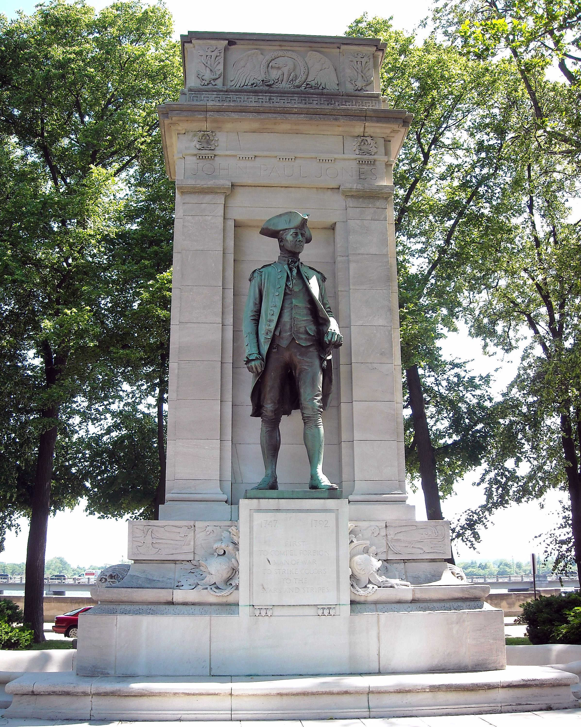 John Paul Jones Memorial on the National Mall in Washington, D.C.